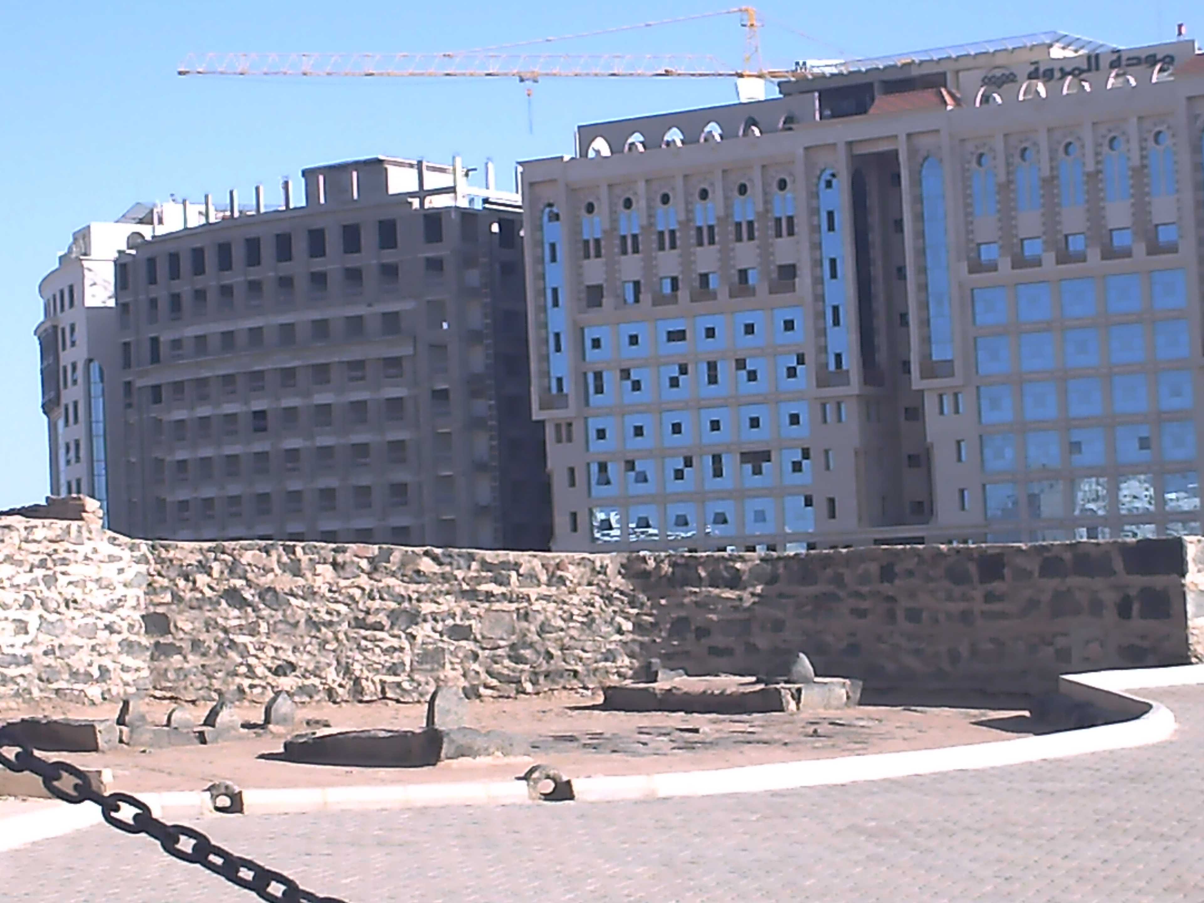 Grave of Fatema (single front one) and others at J.Baqi, Medina, Hejaz, Saudi Arabia